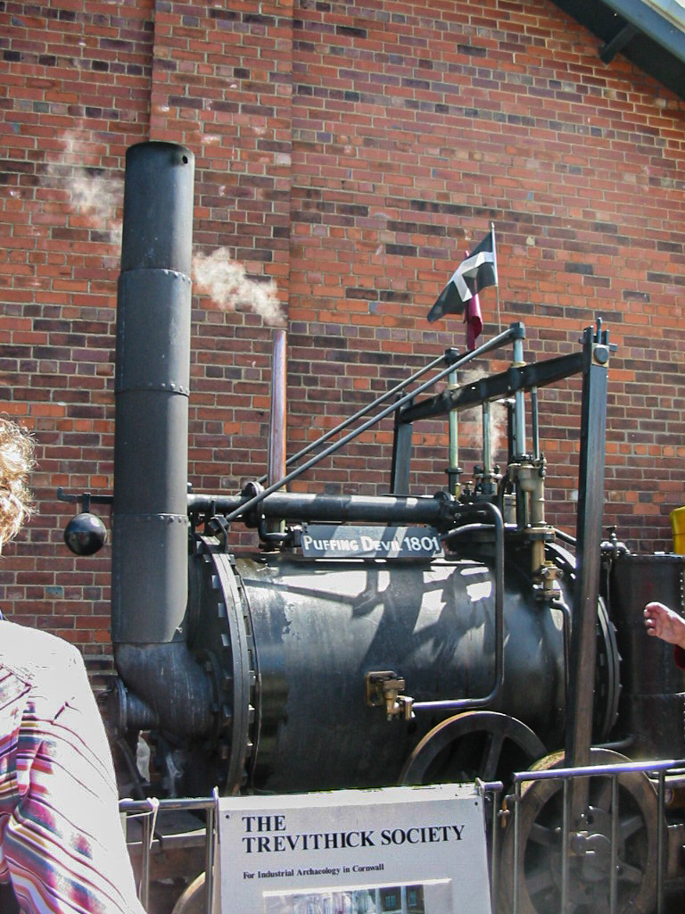 A replica of Richard Trevithick's 1801 road locomotive Puffing Devill at the National Railway Museum in York during the Rail200 Railfest in 2004. This vehicle is road-legal in Great Britain and is registered with the DVLA with the make "Trevithick" and model "No. 1", although it is limtied to a maximum of 6mph because of its steel-tyred wheels. Despite being constructed for the 2001 bicentenary of the original, no road tax is levied on the replica as if it was truly older than the cut-off. This is apparently because officialdom did not believe that anyone could possibly want to construct and run a new steam-powered vehicle and so no category exists it fits.